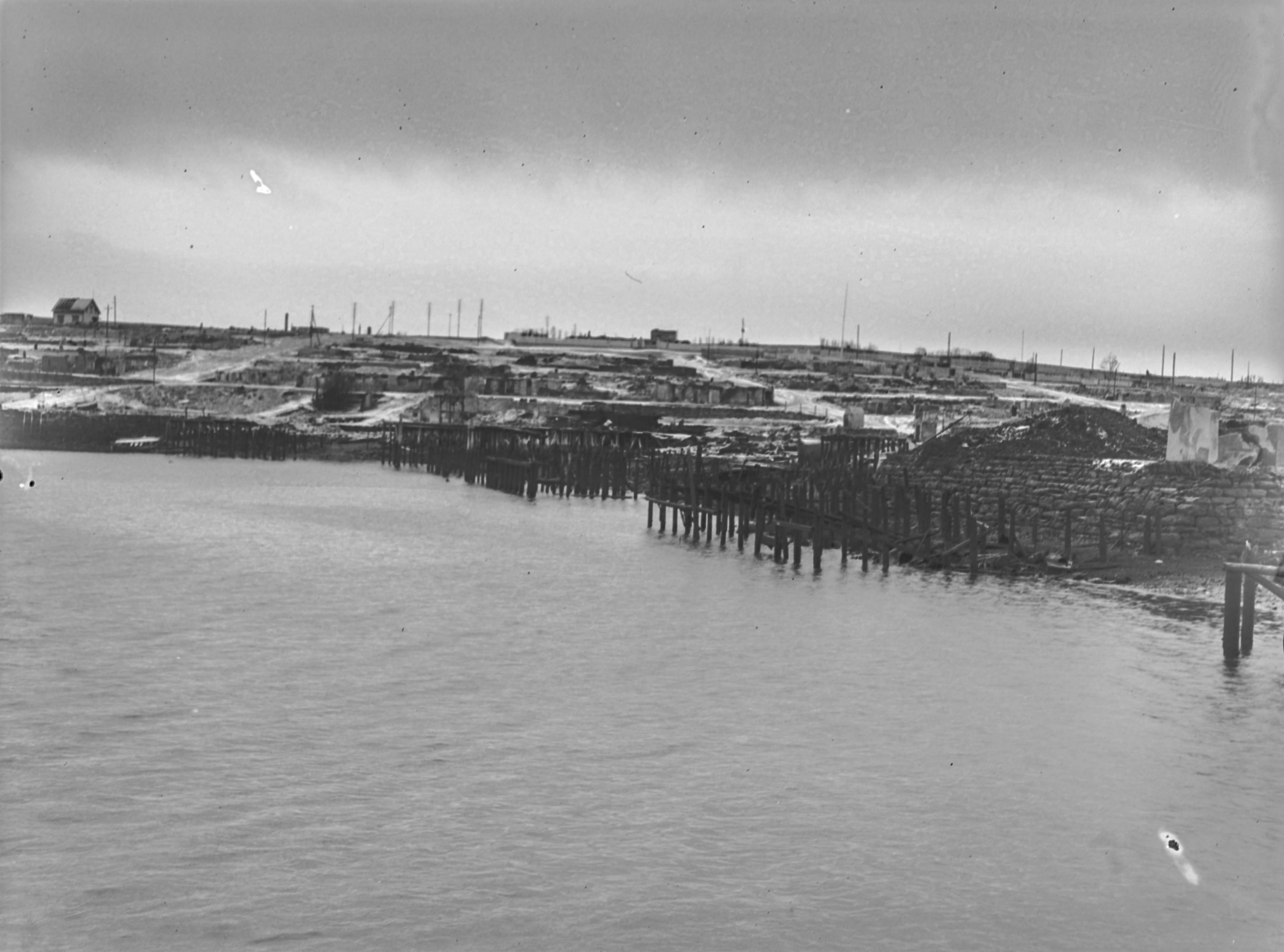 Photos from Flickr album "Evakueringen og frigjøringen av Finnmark" (The Evacuation and Liberation of Finnmark, 2015) ny Riksarkivet (National Archives of Norway). Towards the end of World War II, with Operation Nordlicht, the Germans used the scorched earth tactic in Finnmark and northern Troms to halt the Red Army. As a consequence of this, few houses survived the war, and a large part of the population was forcefully evacuated further south (Tromsø was crowded), but many people avoided evacuation by hiding in caves and mountain huts and waited until the Germans were gone, then inspected their burned homes. There were 11,000 houses, 4,700 cow sheds, 106 schools, 27 churches, and 21 hospitals burned. There were 22,000 communications lines destroyed, roads were blown up, boats destroyed, animals killed, and 1,000 children separated from their parents. However, after taking the town of Kirkenes on 25 October 1944 (as the first town in Norway), the Red Army did not attempt further offensives in Norway. The town was handed over to Norway as the war ended. When war was over, more than 70,000 people were left homeless in Finnmark. The government imposed a temporary ban on residents returning to Finnmark because of the danger of landmines. The ban lasted until the summer of 1945 when evacuees were told that they could finally return home.